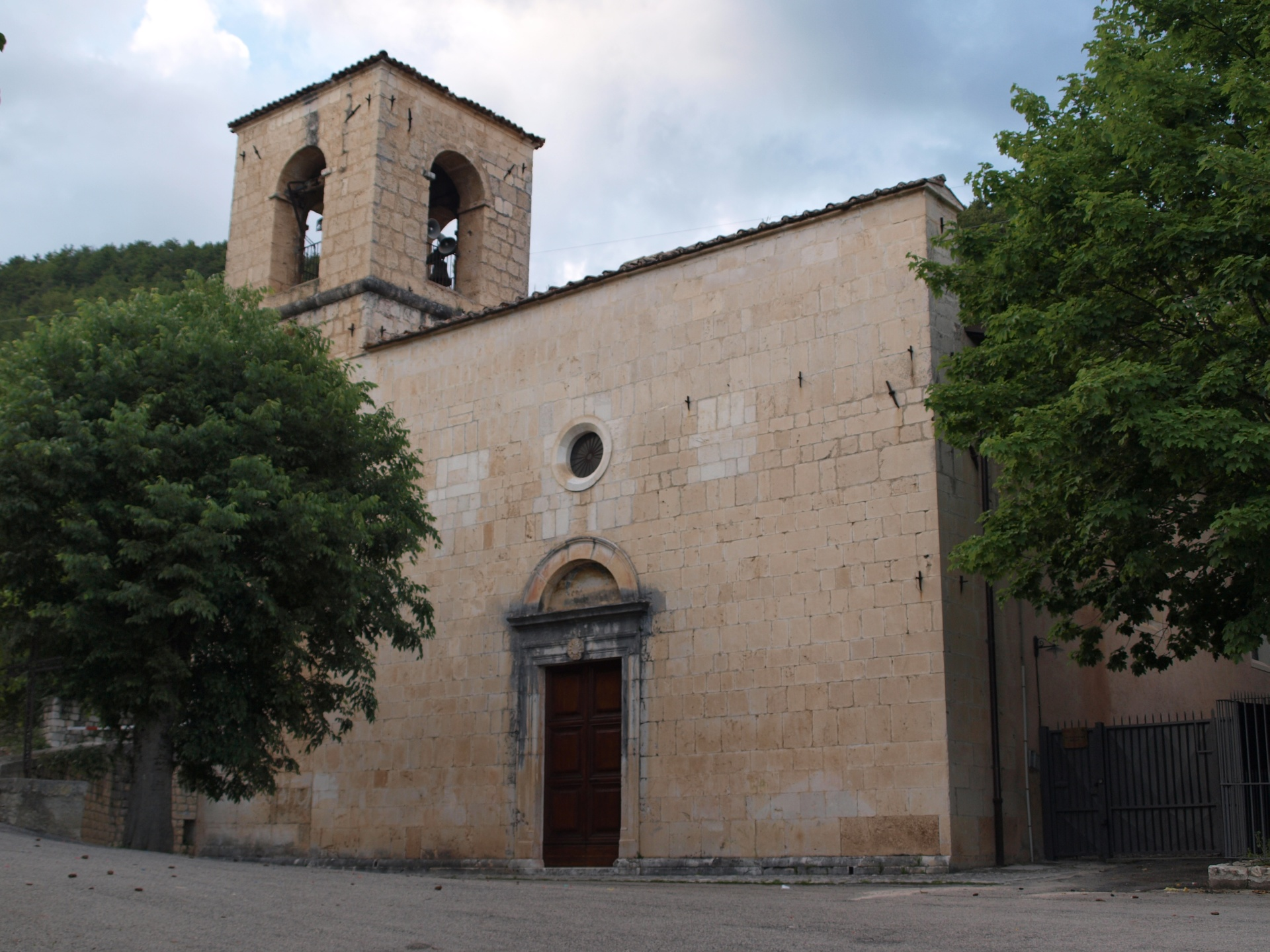 Church of Saint Stephen (San Stefano a Monte) in town Pizzoli, XIII-XIV century. Parish of Saint Stephen the First Martyr (province L'Aquila, Abruzzo region, Italy)